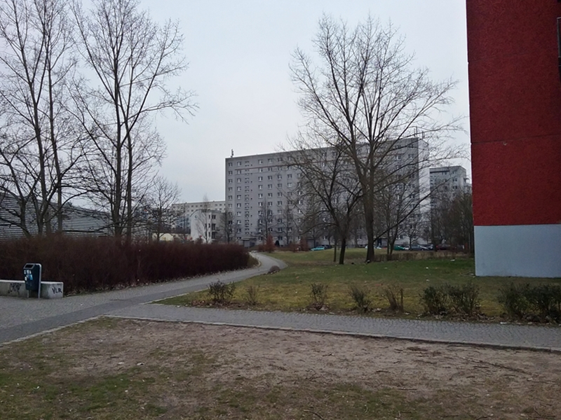 Residential area Cecilienstraße